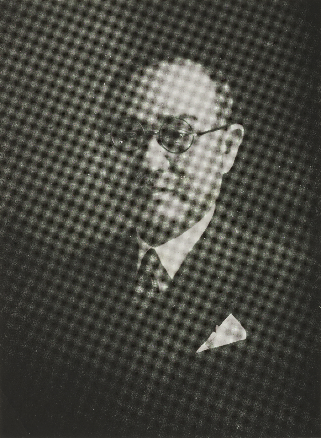 Portrait of Tomabechi Gizo (苫米地義三, 1880 – 1959)